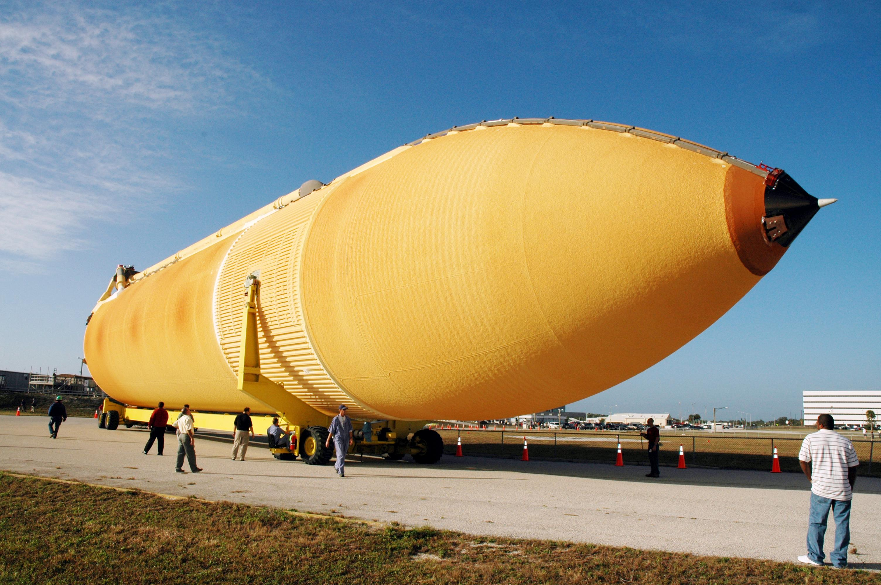 KENNEDY SPACE CENTER, FLA. - The newly redesigned External Tank turns the corner of the Launch Complex 39 Area Turn Basin parking area on its way to the Vehicle Assembly Building, seen at right. The tank arrived Jan. 5 after a 900-mile sea voyage aboard NASA’s specially designed barge, Pegasus, from the Michoud Assembly Facility in New Orleans. In the transfer aisle of the VAB, the tank will be raised from a horizontal to a vertical position, then lifted high up into a storage cell, or “checkout cell,” where it will undergo inspections of the mechanical, electrical and thermal protection systems. New processing activities resulting from re-design of the tank include inspection of the bipod heater and External Tank separation camera, which includes charging the camera batteries. The tank will be then prepared for mating to the Solid Rocket Boosters. When preparations are complete, the tank will be lifted from the checkout cell, moved across the transfer aisle and into High Bay 1, where it will be lowered and attached to the boosters, which are sitting on the Mobile Launch Platform. The tank is designated for the Return to Flight mission, STS-114, targeted for a launch opportunity beginning in May. The seven-member Discovery crew will fly to the International Space Station primarily to test and evaluate new procedures for flight safety, including Space Shuttle inspection and repair techniques.